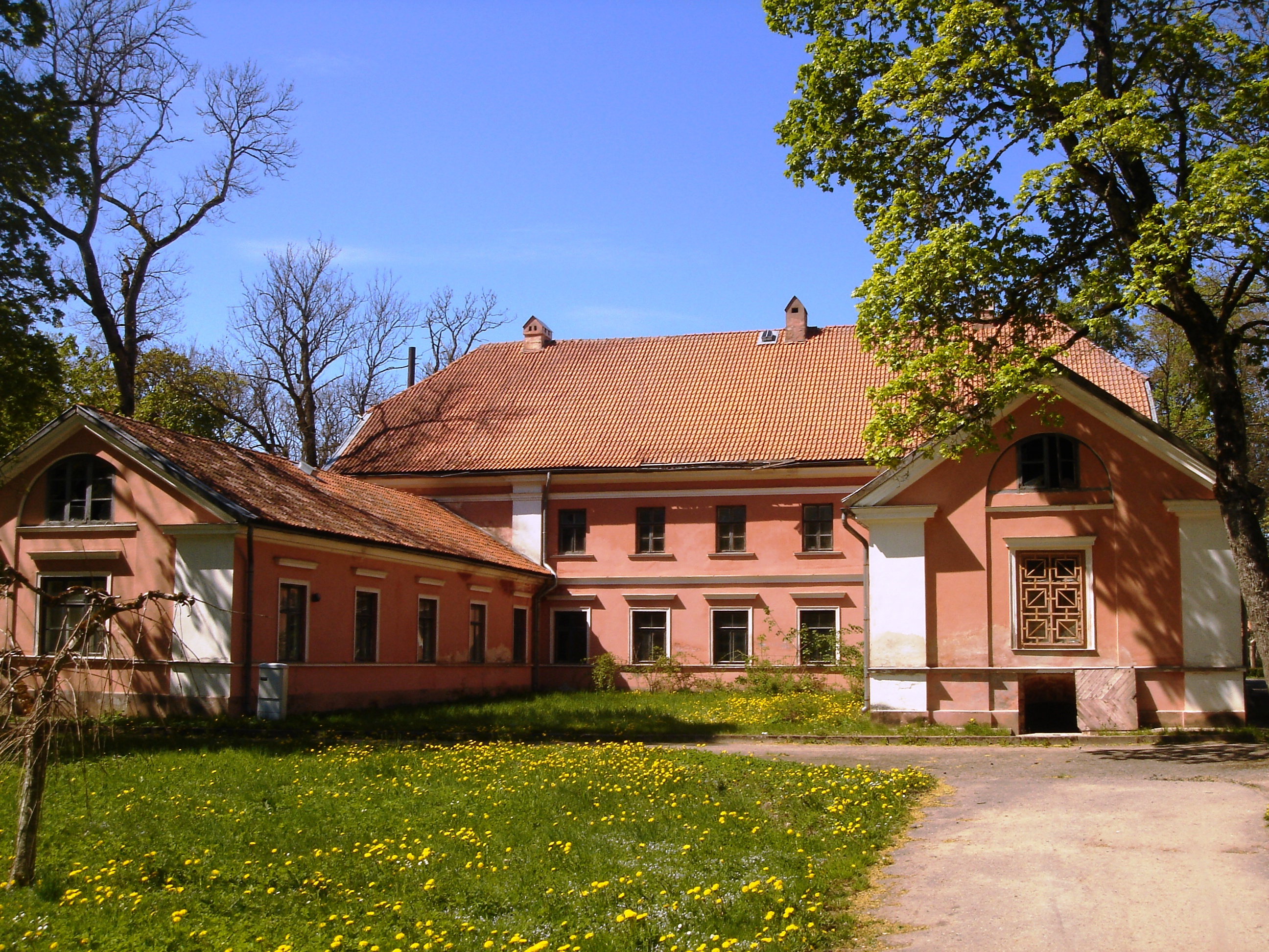 Dižstende Manor